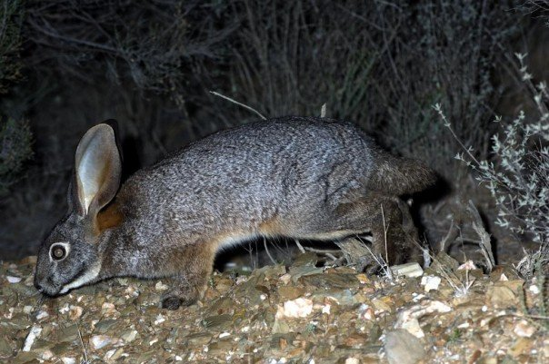 Photo of Bunolagus monticularis uploaded from iNaturalist.